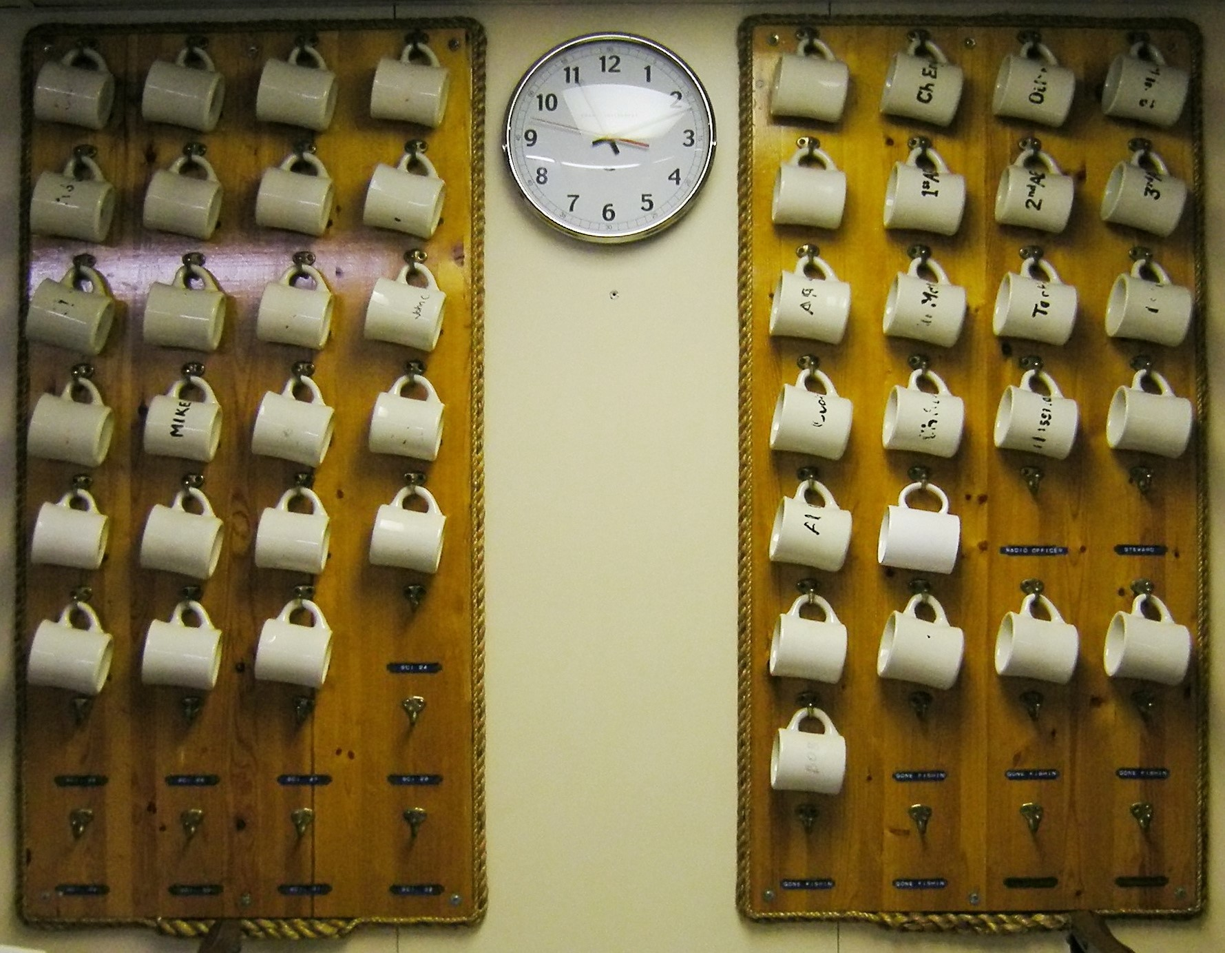 Mugs hanging in the mess of the research vessel RV Thomas G. Thompson, photographed at its dock at the University of Washington, Seattle, Washington, USA.